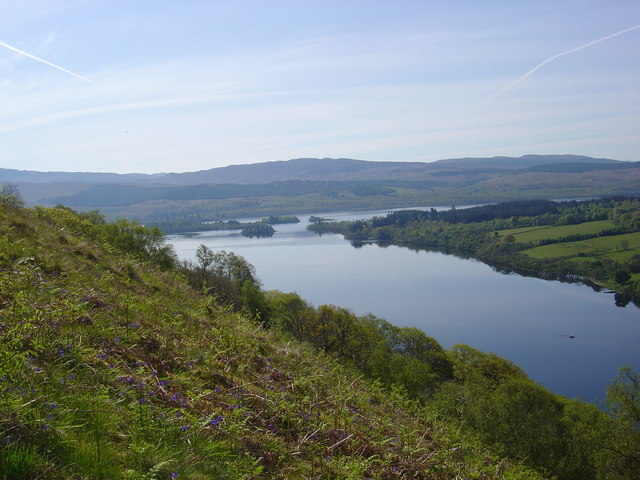 Loch Awe. Photo taken from the Falls of Cruachan